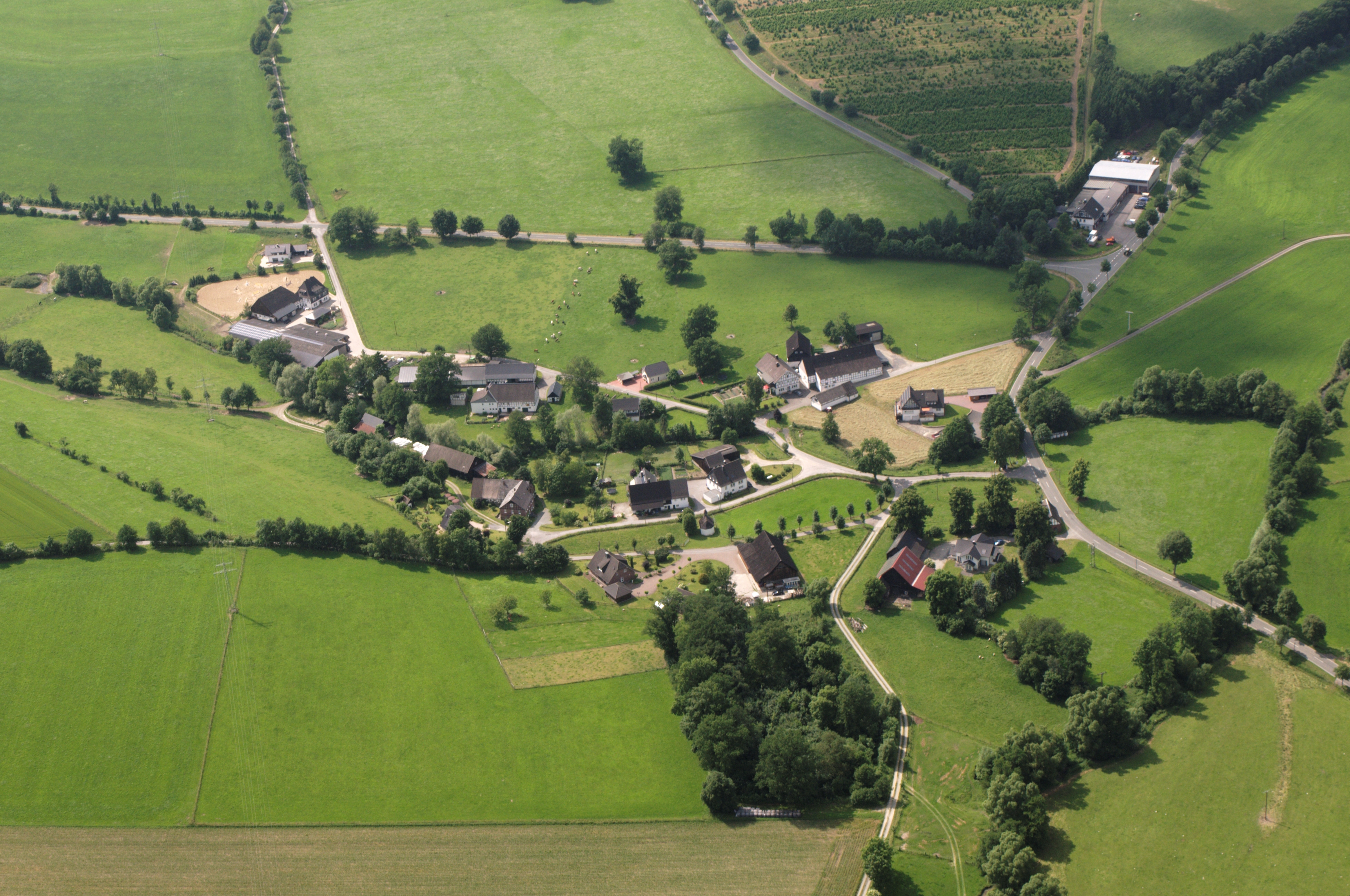 Fotoflug Sauerland-Ost, Schmallenberg-Oberberndorf The making of this document was supported by the Community-Budget of Wikimedia Germany.